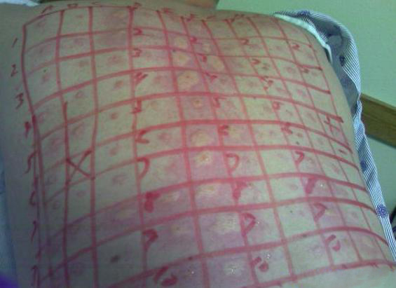 Photo of skin test about 15 minutes after the application of allergens and the scratching.